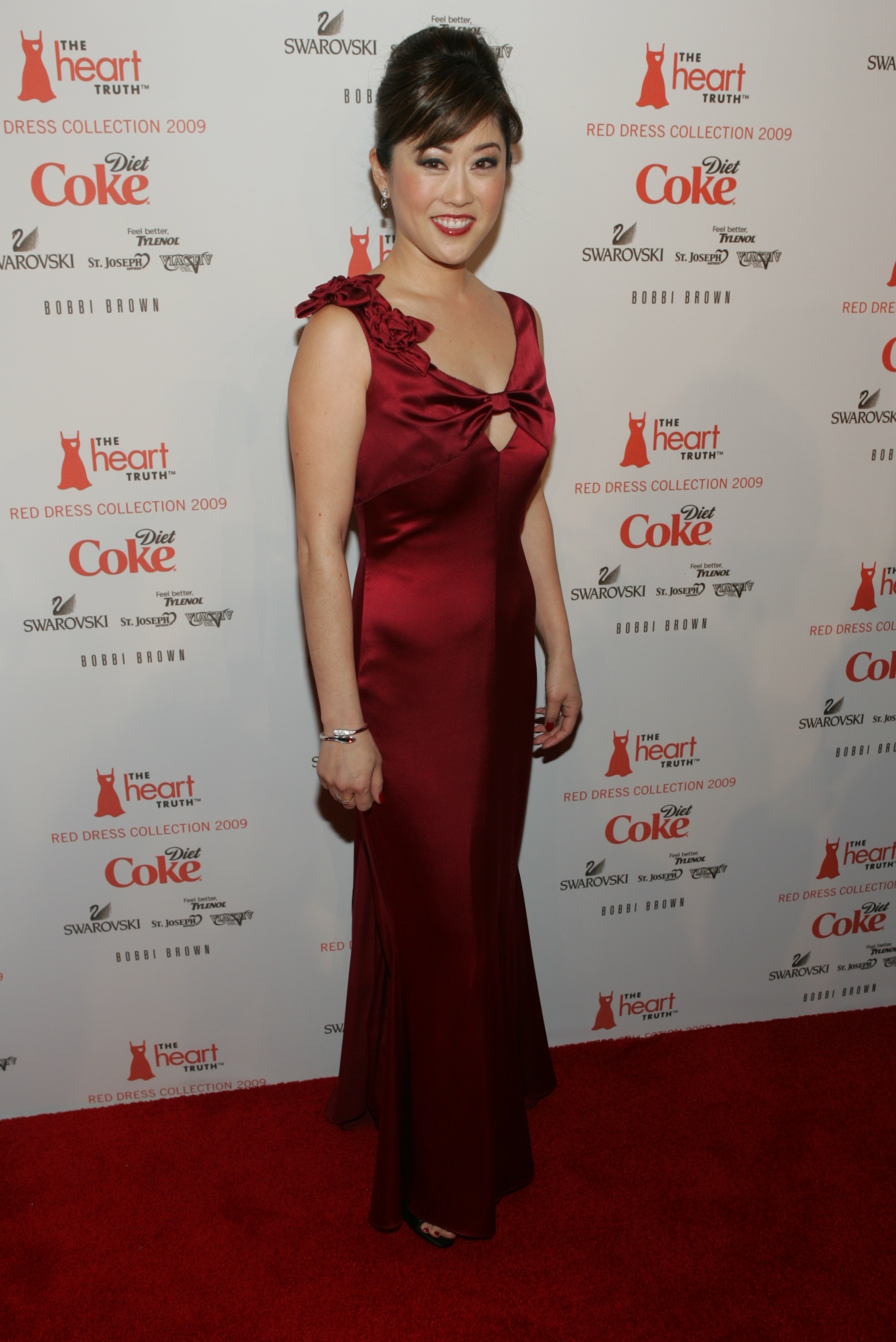 Kristi Yamaguchi backstage at The Heart Truth's Red Dress Collection Fashion Show during New York Fashion Week. February 13, 2009 at Bryant Park.